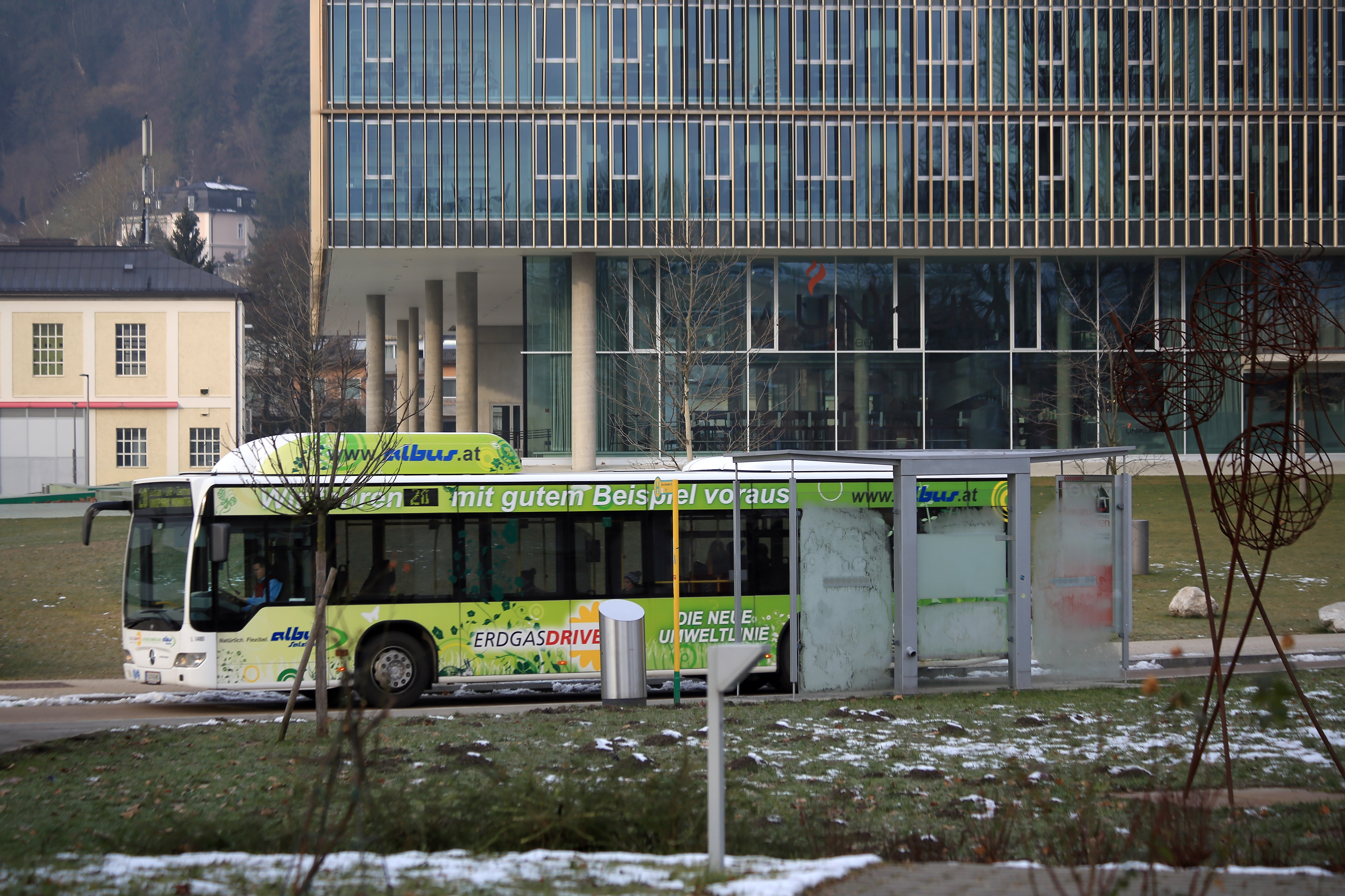 Public bus in front of Unipark Nonntal of the University of Salzburg (Salzburg, Austria).